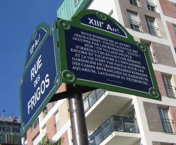 A funny picture of rue Goscinny in Paris (reference to Astérix)